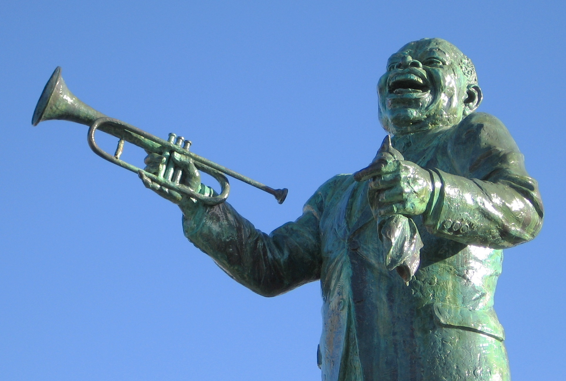 Public statue of Louis Armstrong in New Orleans, LA. One of two in the city; this one is at Algiers Point, the other is in Armstrong Park.